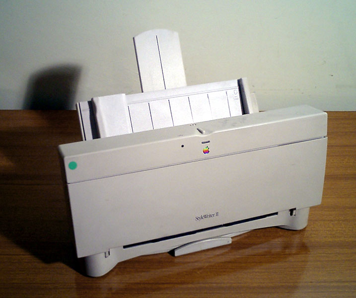 Apple StyleWriter II